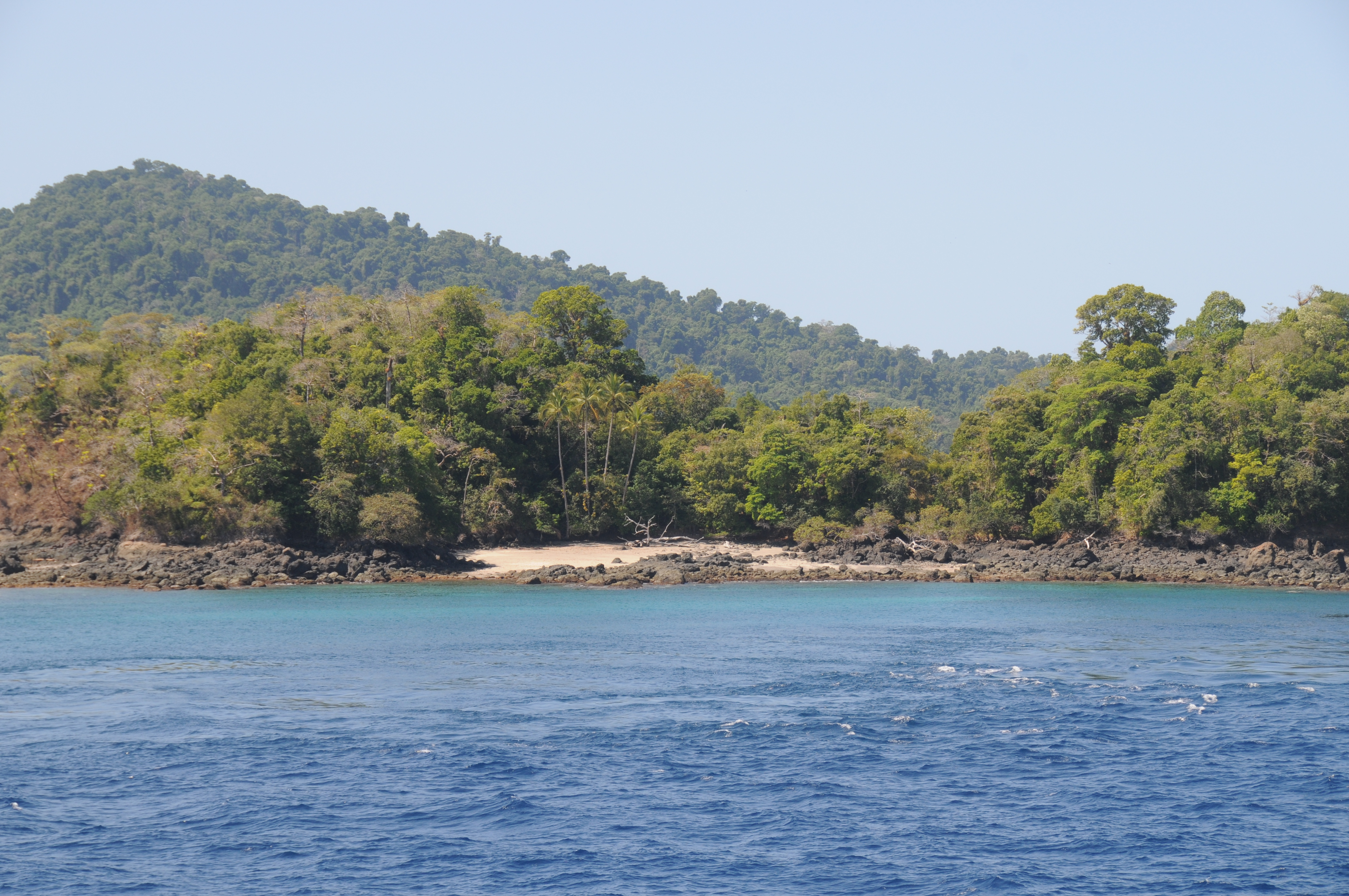 Isla de Coiba - Granite de Oro - Pacific Ocean Islands off Panama